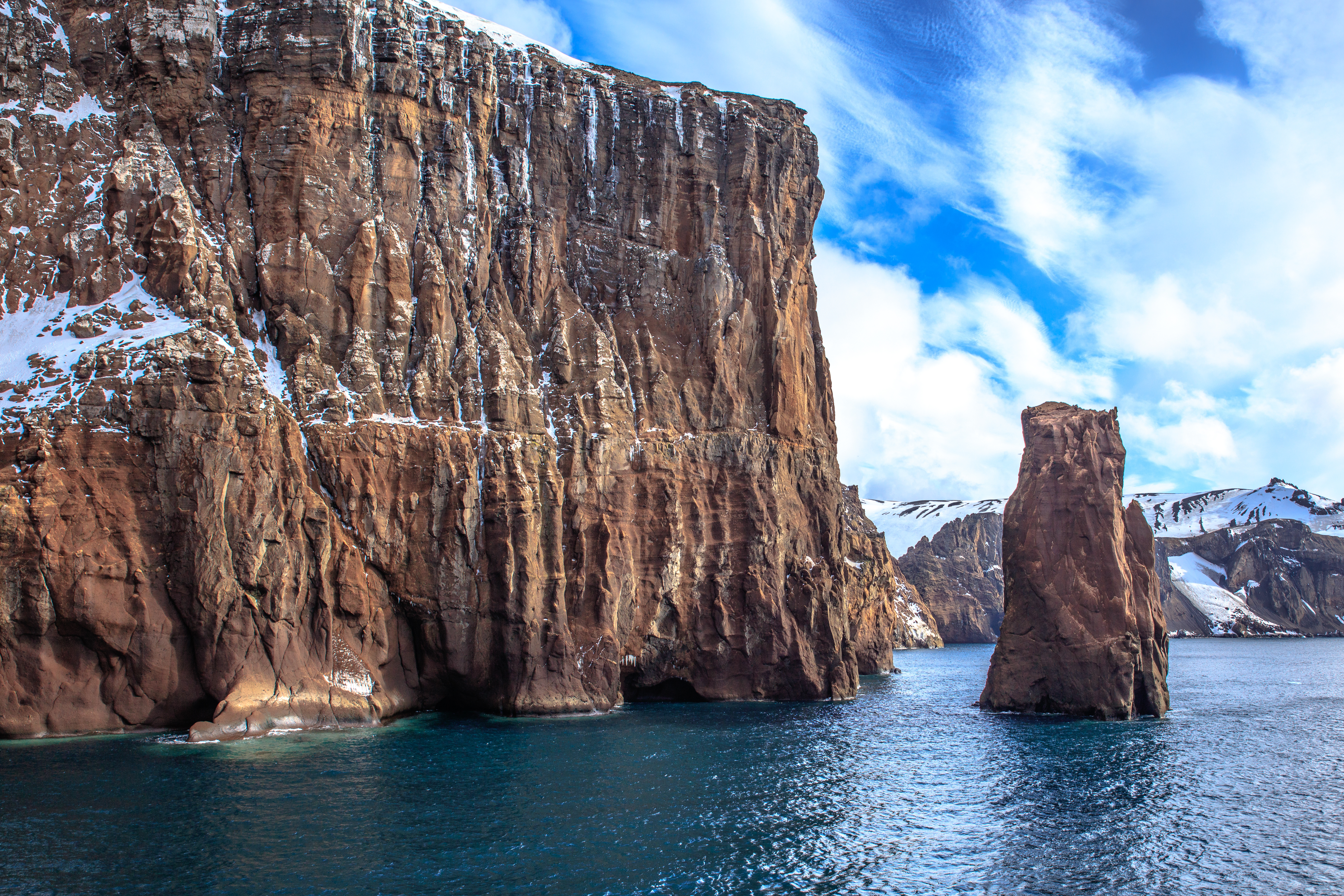 excursion No. 12.. into the old caldera of Deception Island...passing through Neptunes Bellows on the way to Port Foster, the old whaling station from the early 1900's...